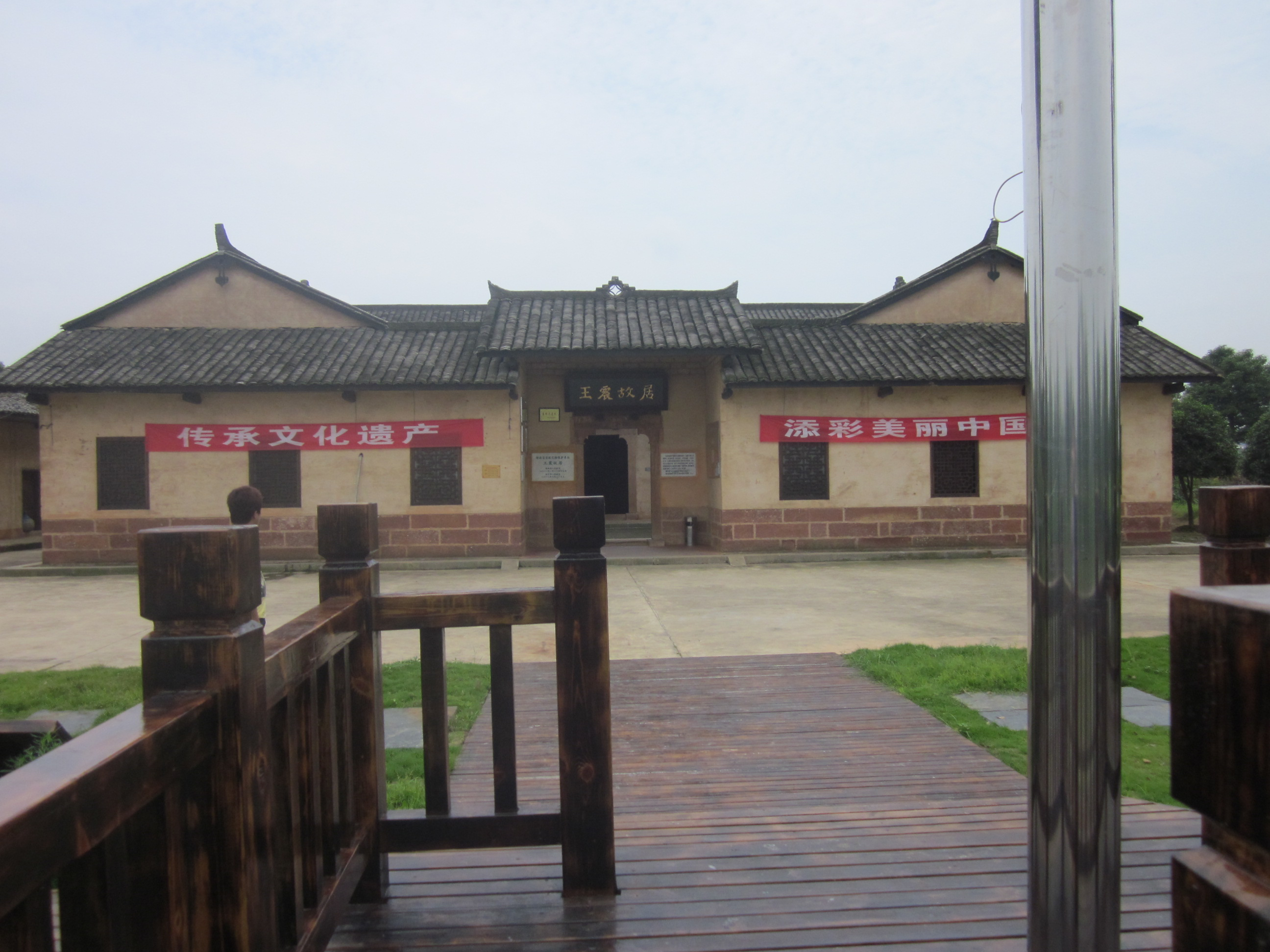 Wang Zhens Former Residence (Chinese: 王震故居) was built in the late Ming Dynasty, it is located in Liuyang City, Hunan Province, People's Republic of China.